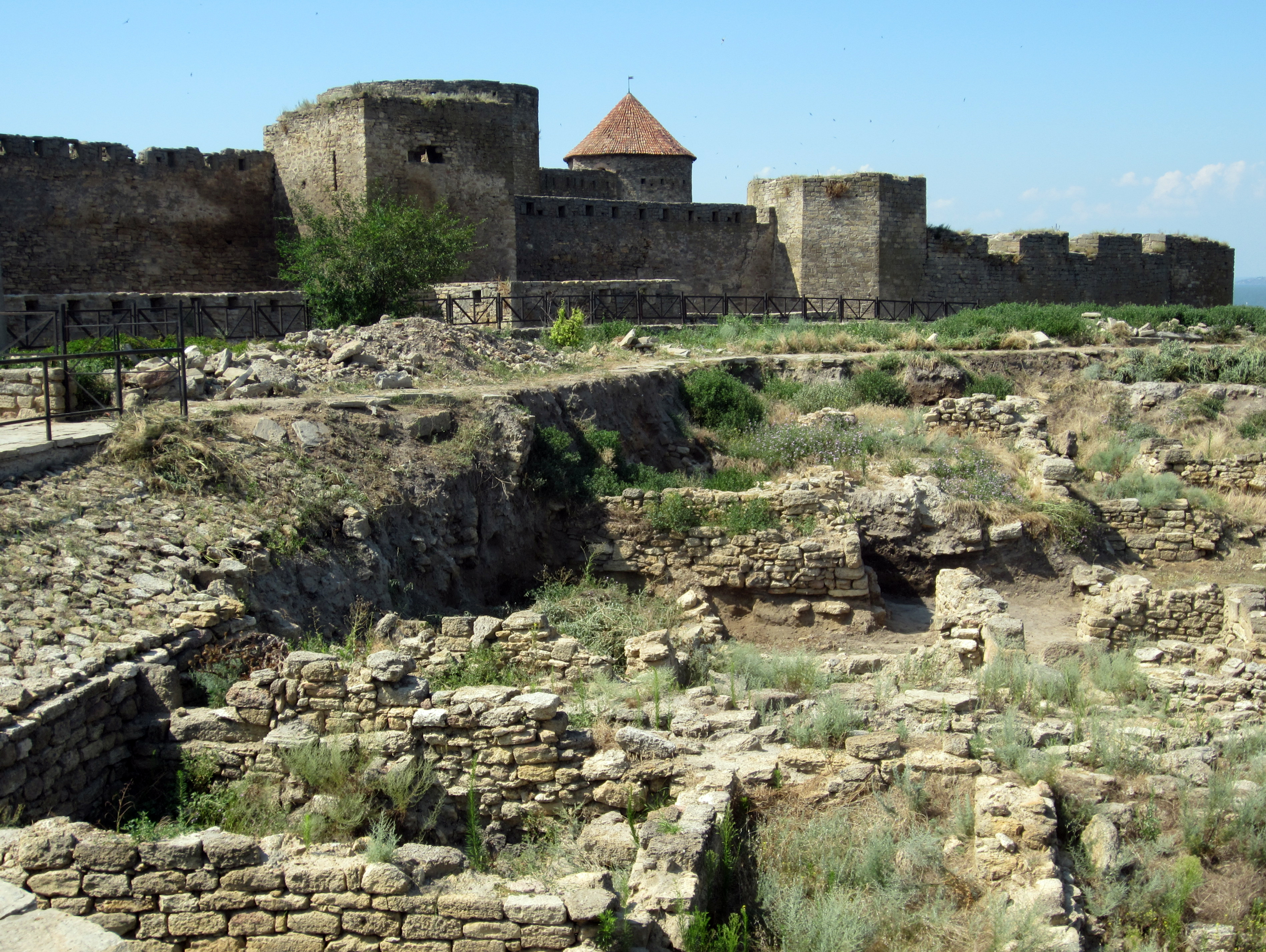 Ukrainian town of Bilhorod-Dnistrovskyi (Ukrainian Білгород-Дністровський, Russian Белгород-Днестровский), fortress Akkerman (Russian: Аккерман).